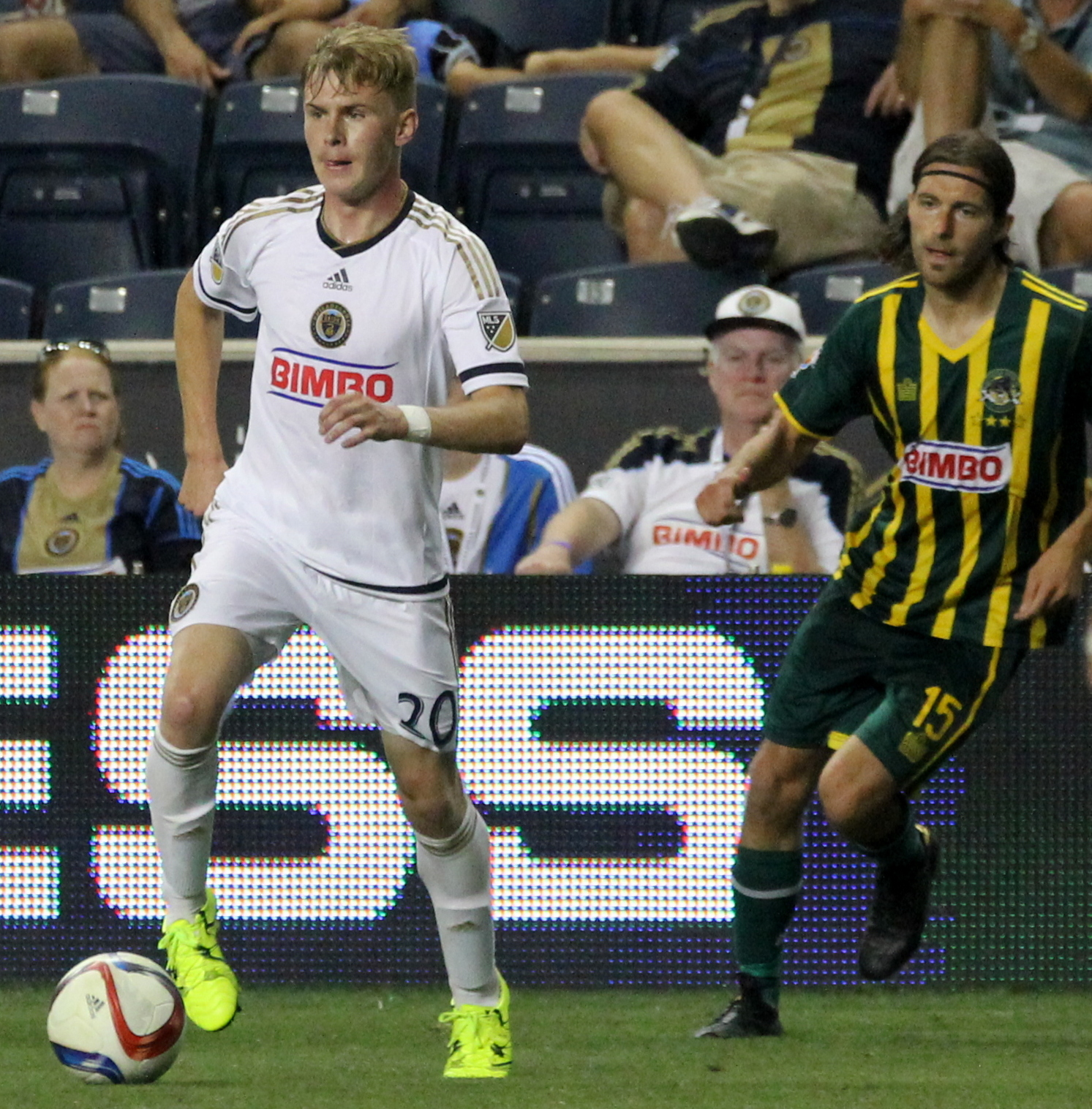 Philadelphia Union midfielder Jimmy McLaughlin pursued by Rochester Rhinos defender Pat McMahon in the 2015 U.S. Open Cup. The following season, the two opposing players would become teammates on FC Cincinnati.